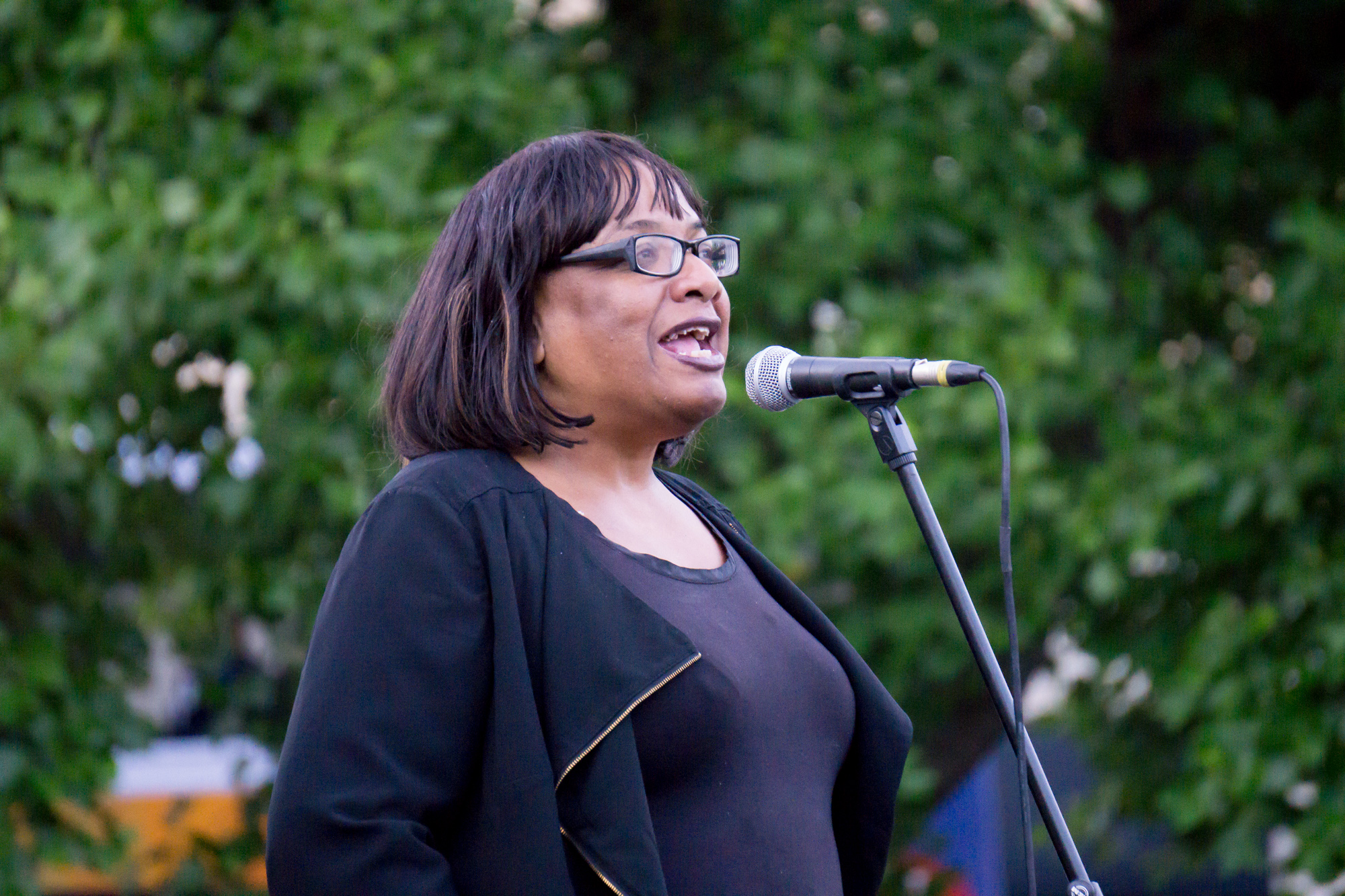 Diane Abbott speaking at a Jeremy Corbyn leadership rally in August 2016.